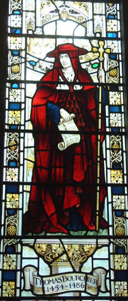 1909 stained glass depiction in Sevenoaks Church, Kent, of Thomas Bourchier (c.1404-1486), Archbishop of Canterbury (1454-1486) and Cardinal. He wears a cardinal's hat. His residence of Knole House, which he built, was situated opposite the church. The window is inscribed: To the glory of God and in memory of George Frederick Carnell late of this parish who died 28 October 1909 and Mary his wife died 12 April 1896